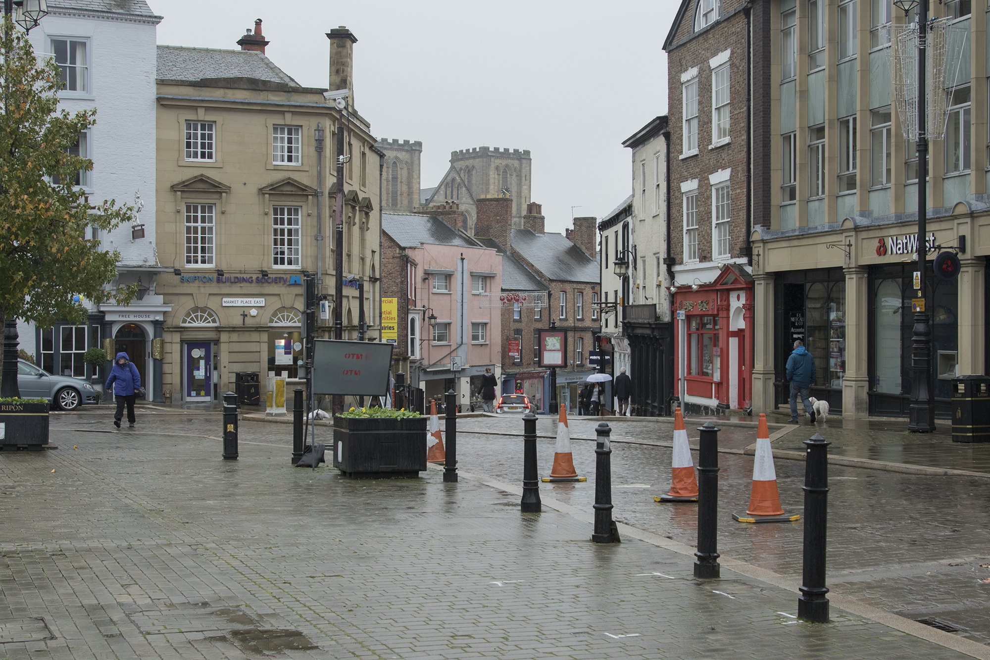 Ripon market place